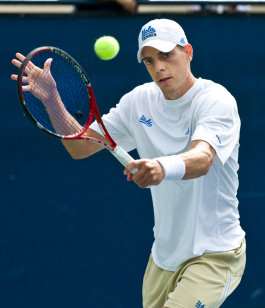 Amit Inbar